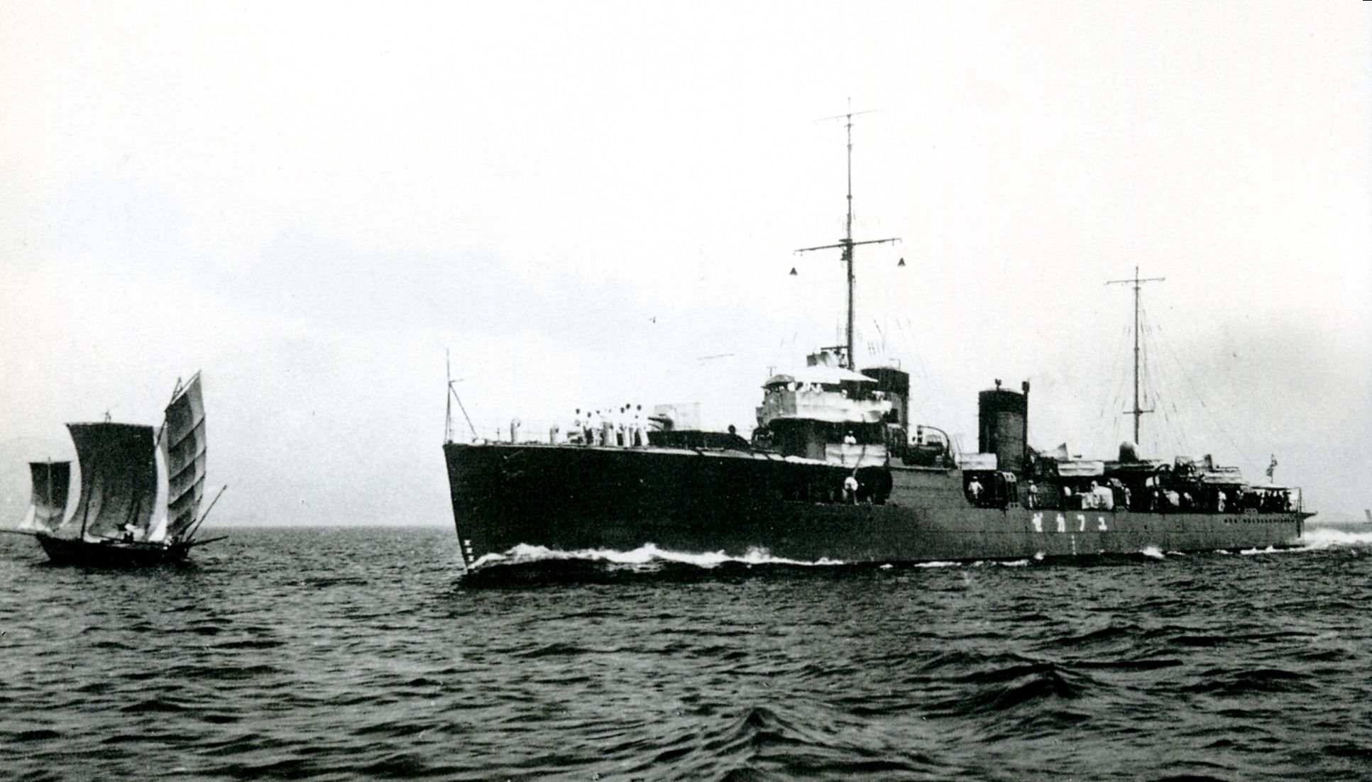 Imperial Japanese Navy destroyer Yukaze on trials off Nagasaki.